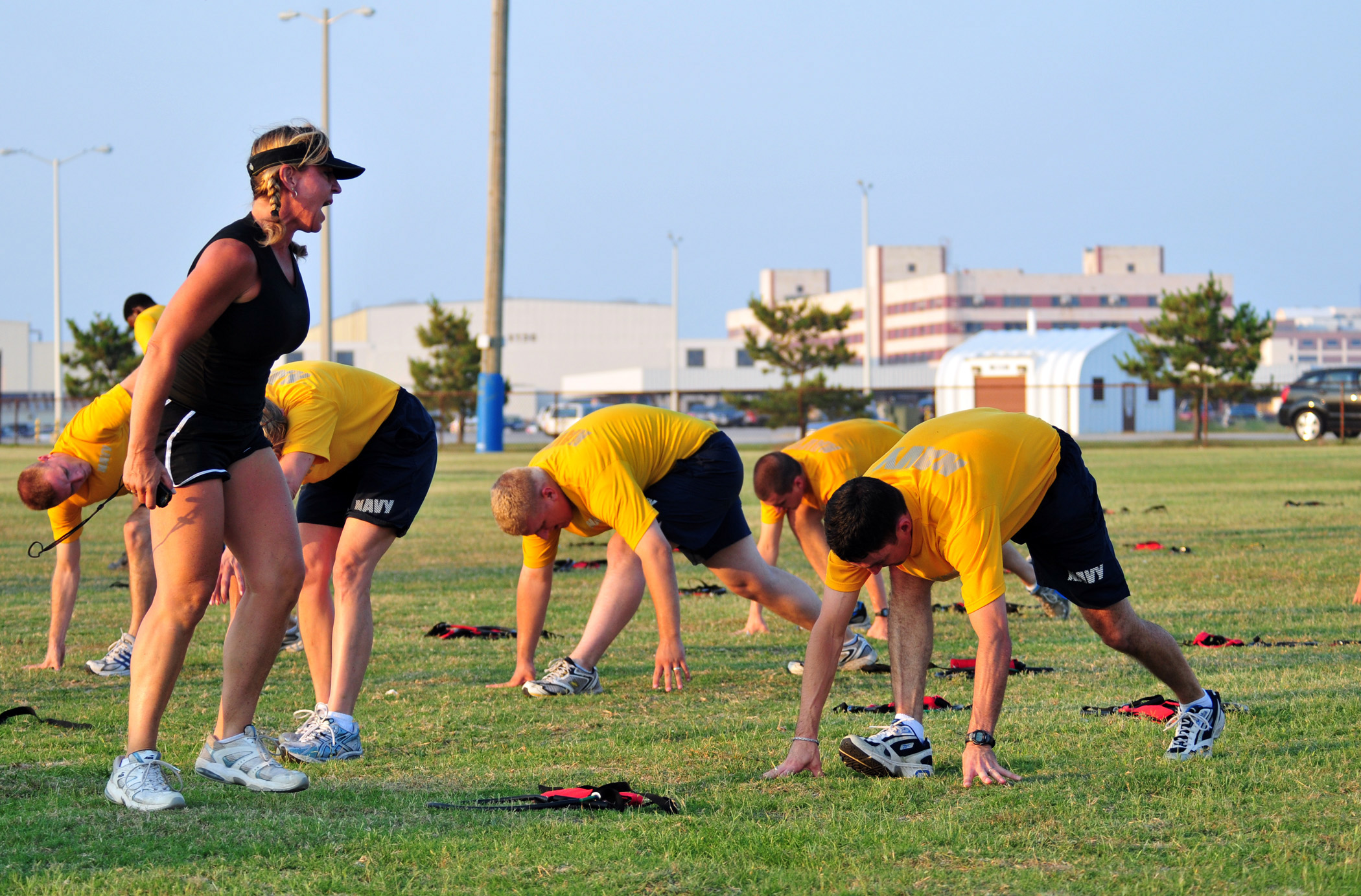 NORFOLK (June 23, 2010) Moral Welfare and Recreation fitness instructors motivated Sailors from the guided-missile cruiser USS Monterey (CG 61) during the commissioning of the Navy Operational Fitness and Fueling System (NOFFS). NOFFS is the Navy's new physical fitness program that is designed to give an all around workout while reducing physical training injuries. (U.S. Navy photo by Mass Communication Specialist 2nd Class Matthew Bookwalter/Released)